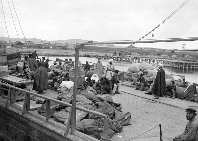 19. Сырдарья. Паромная переправа у Чиназа